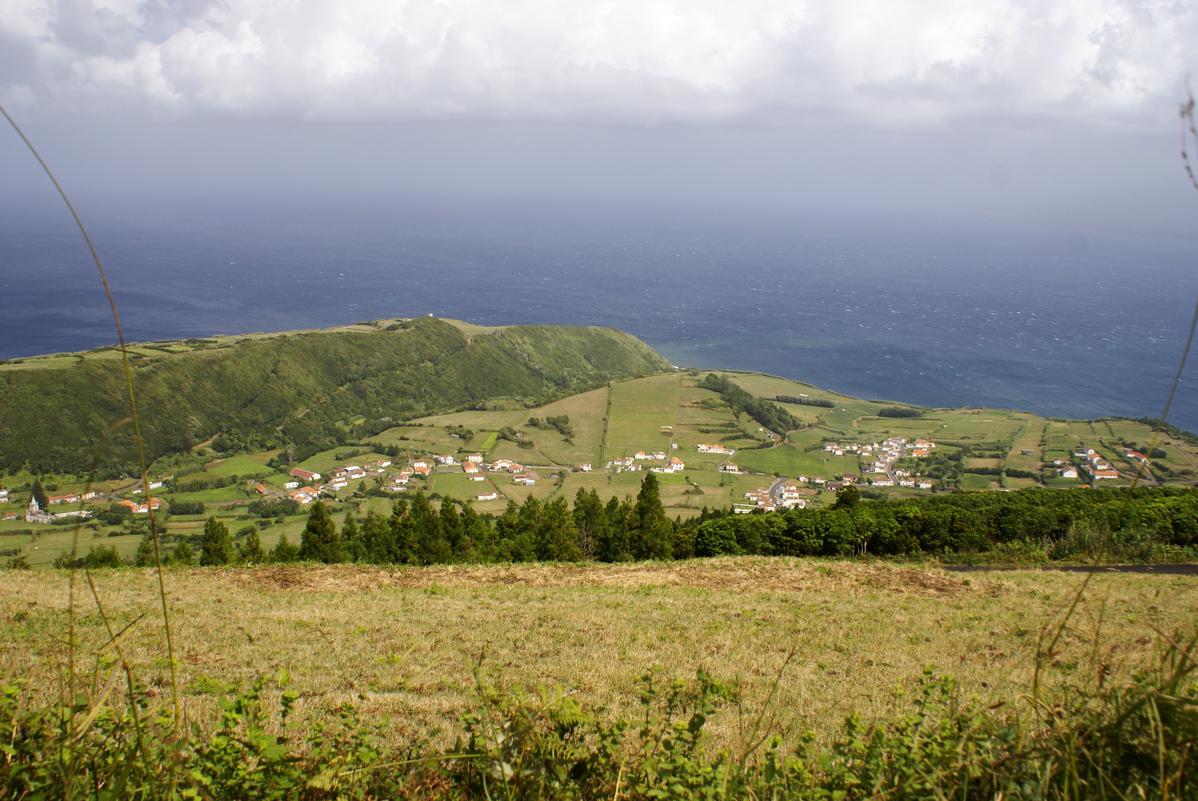 Pedro Miguel, Concelho da Horta, ilha do Faial, Açores, Portugal